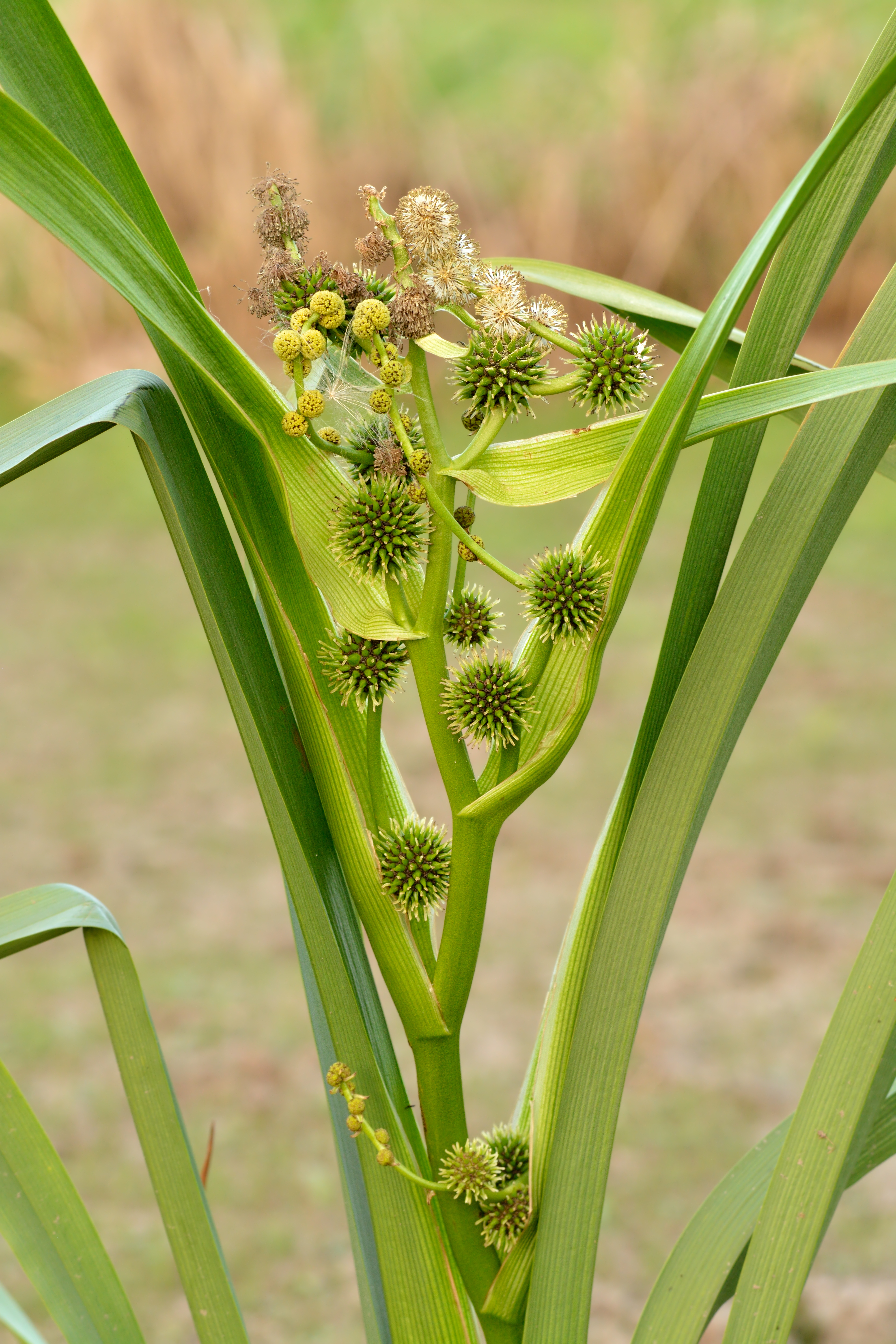 Sparganium erectum subsp. microcarpum - simplestem bur-reed in Keila, Estonia.